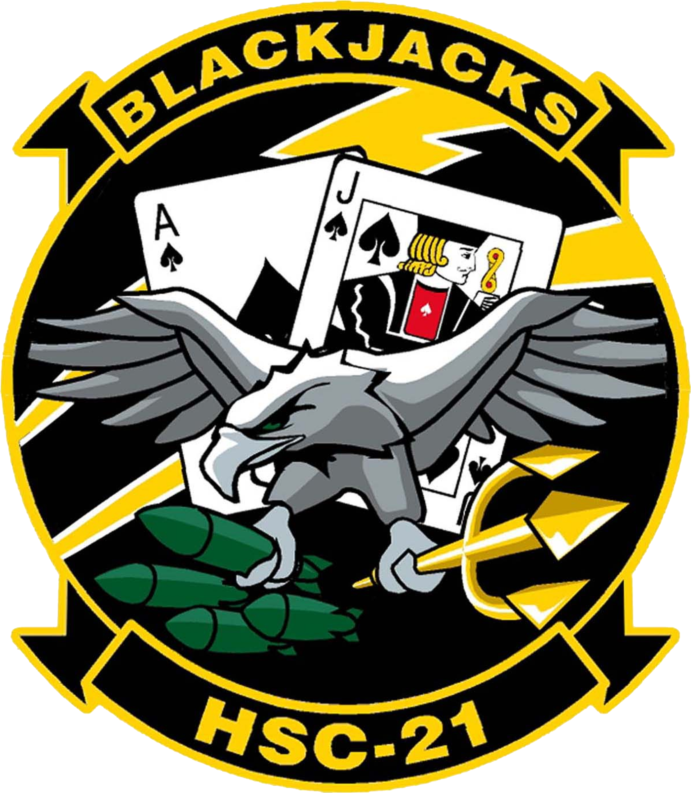 Emblem of the U.S. Navy Helicopter Sea Combat Squadron 21 (HSC-21) "Blackjacks".